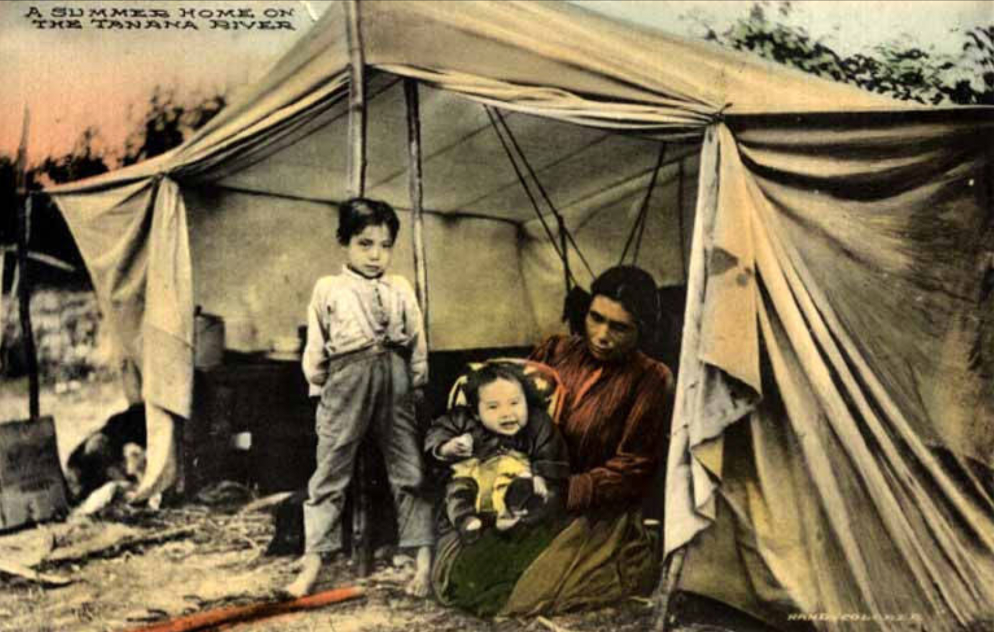 Postcard showing native (likely Tanana Athabaskan) family in tent along Tanana River in Alaska